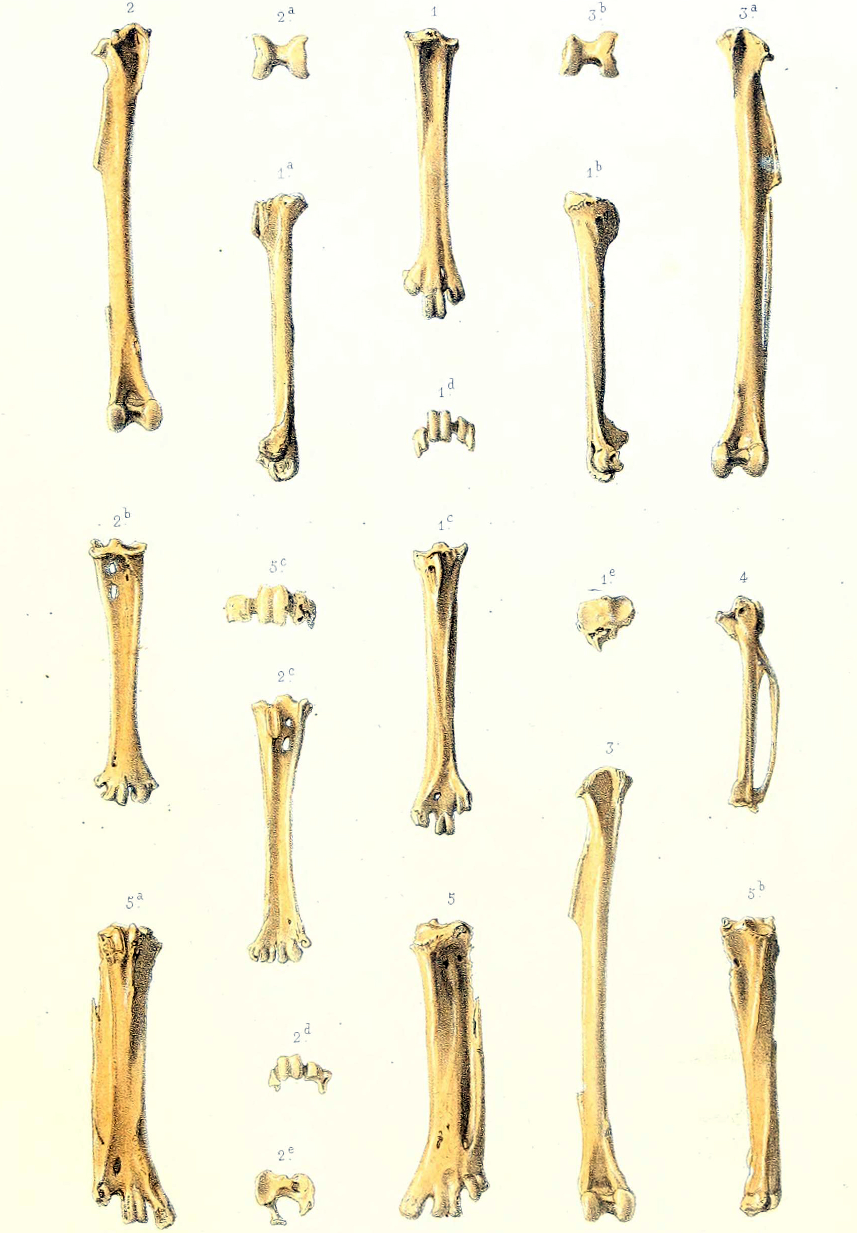 Tarsometatarsus of Erythromachus (1 a.–e.[1]). From Recherches sur la faune ornithologique éteinte des iles Mascareignes et de Madagascar By Alphonse Milne-Edwards. Published by G. Masson in Paris, France, 1866-1875.